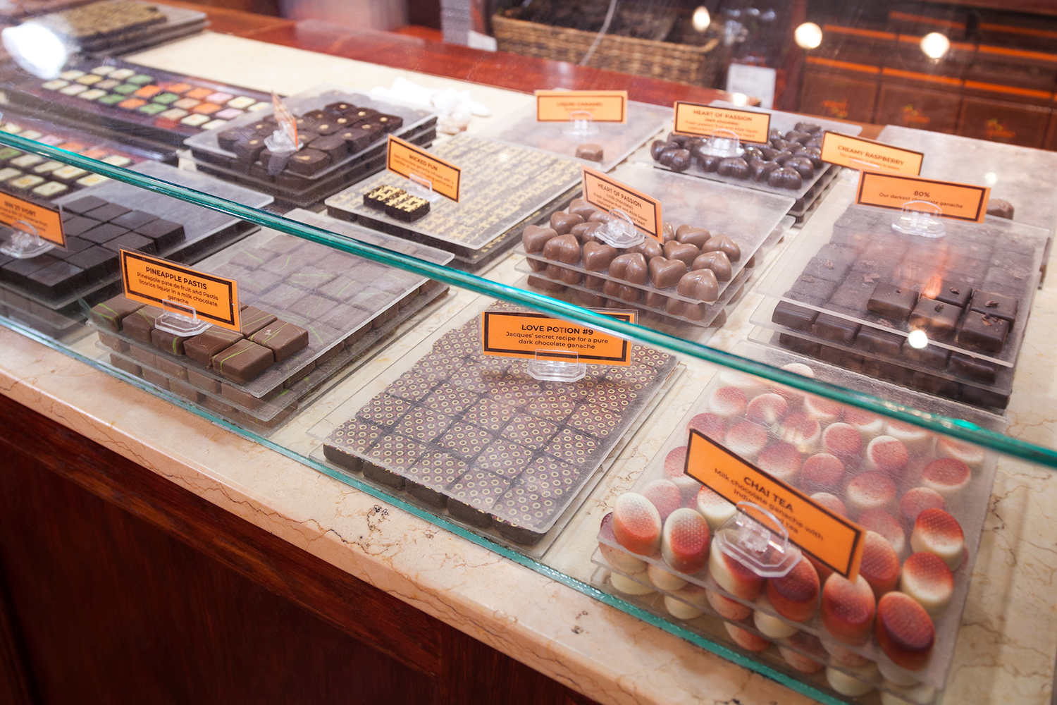 Counter display at Jacques Torres Chocolate in DUMBO (Photo gallery of DUMBO, Brooklyn)